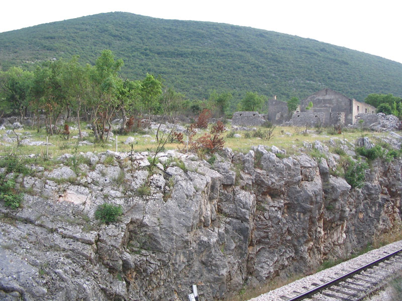 Mravnik hill, near Perković, Croatia. To the right are ruins od WW2 italian barracks, and in the front is Perković-Šibenik railroad